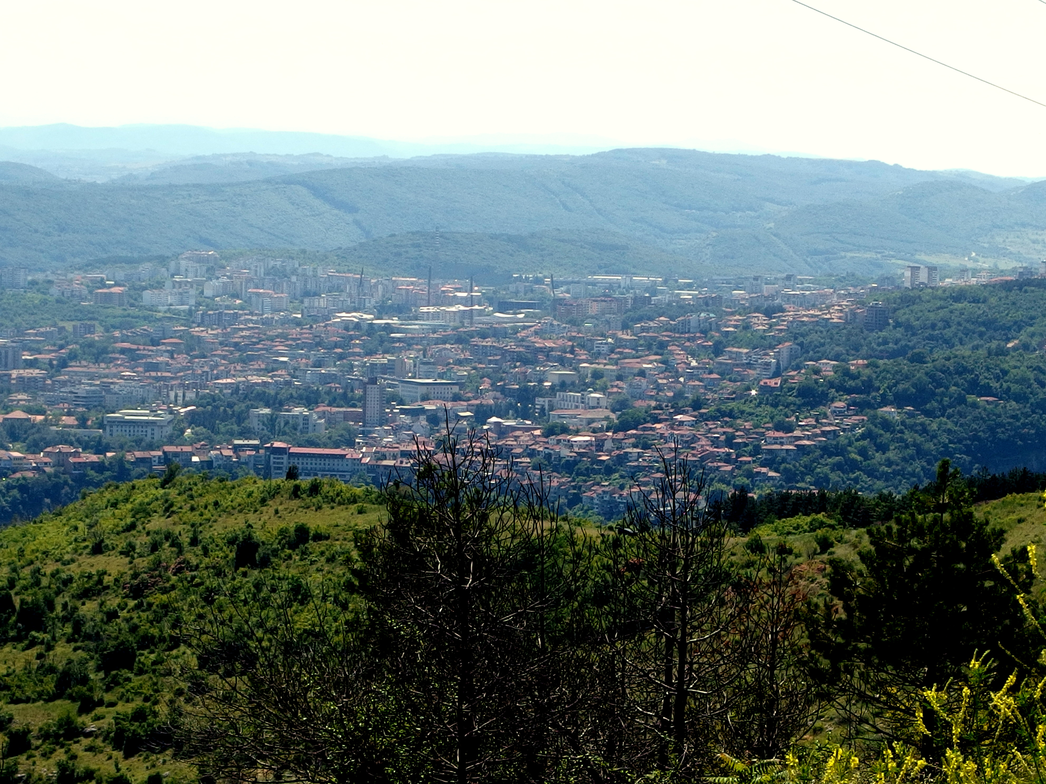 2014-06-23 between Arbanasi and Veliko Tarnovo.